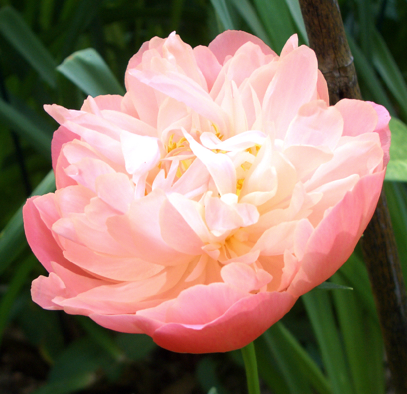 Paeonia Herbaceous Hybrid Group 'Pink Hawaiian Coral'